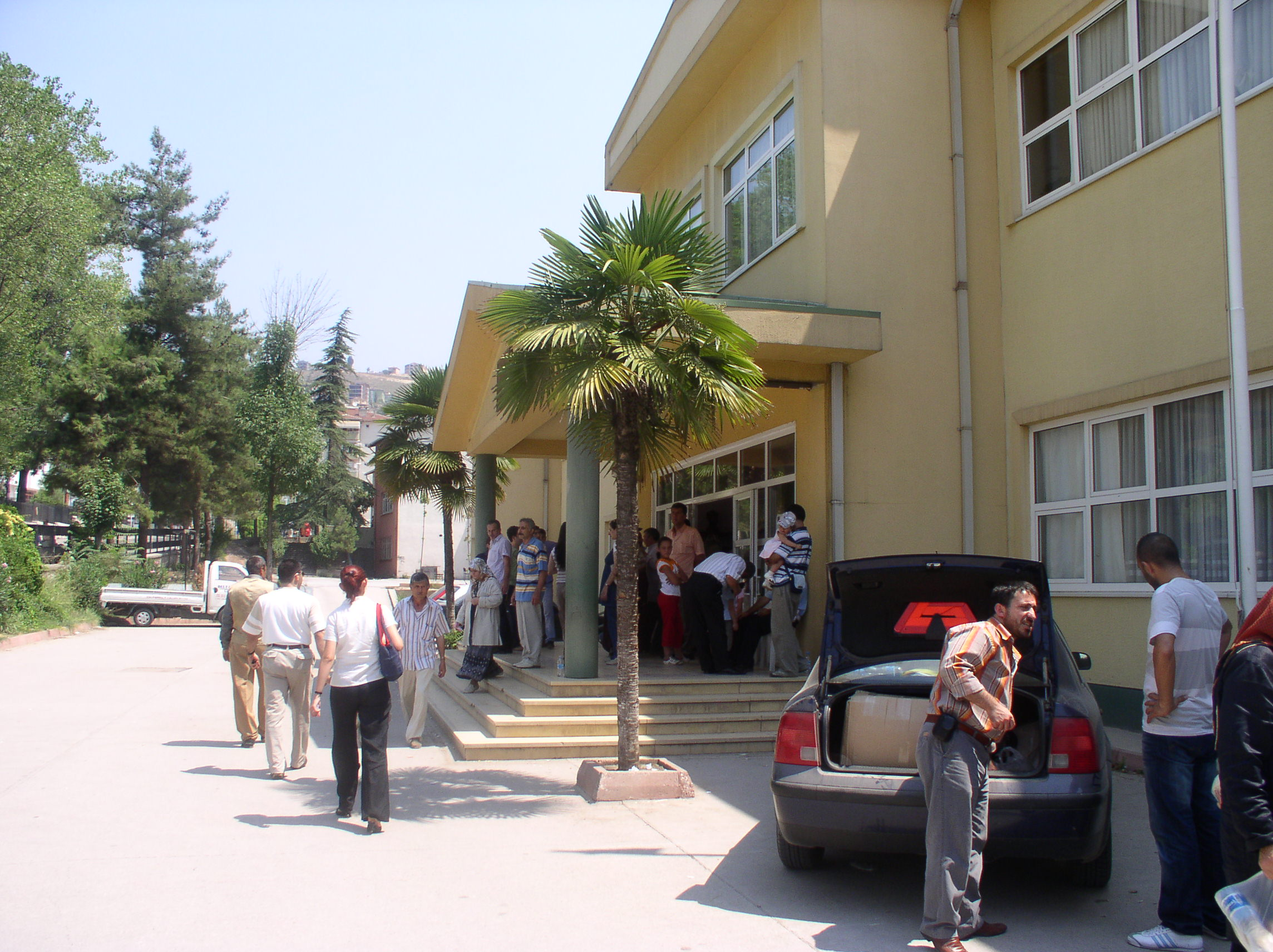 Votes are generally casted in schools such as this one